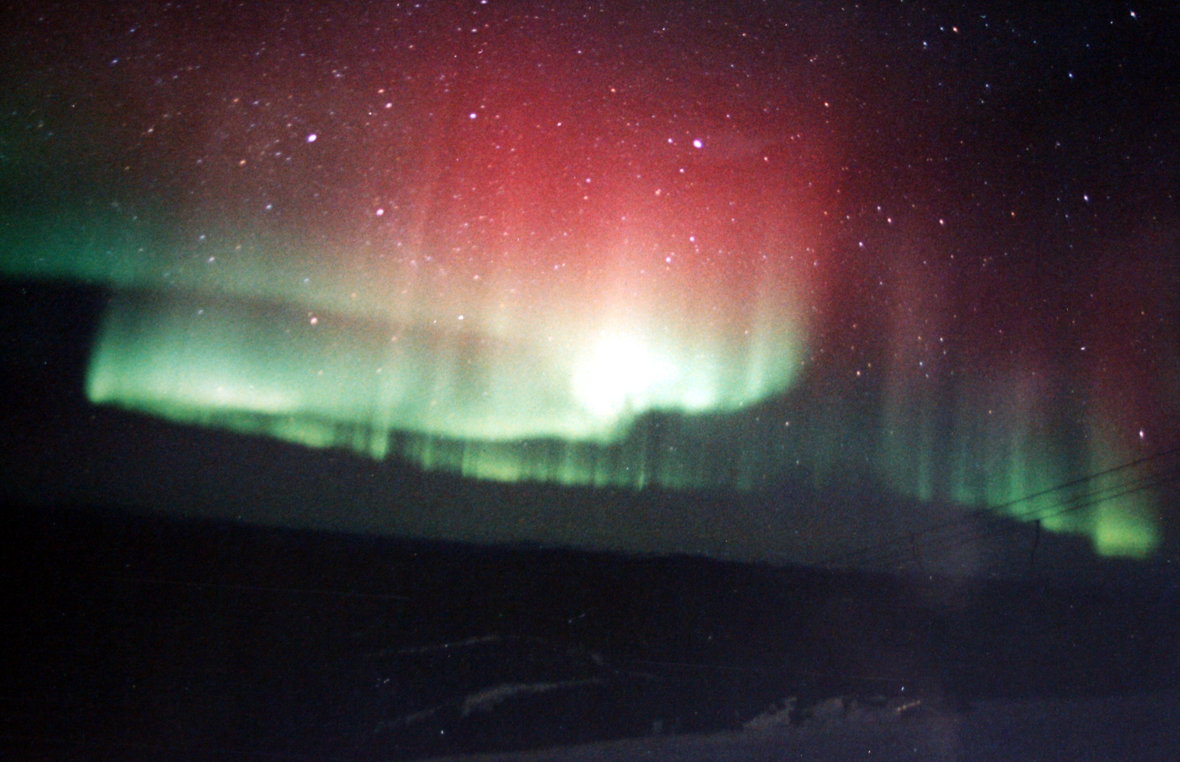 Red and green Aurorain Fairbanks,Alaska. Photograped by Brocken Inaglory. The picture is a digital picture of an old film print.